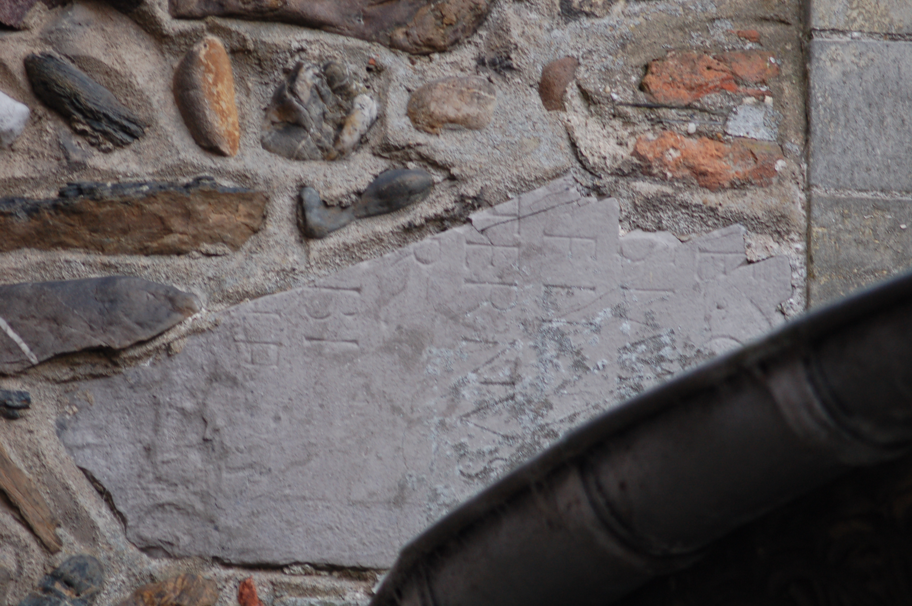 Latin inscription on the brickwork of the church of Millen, Selfkant